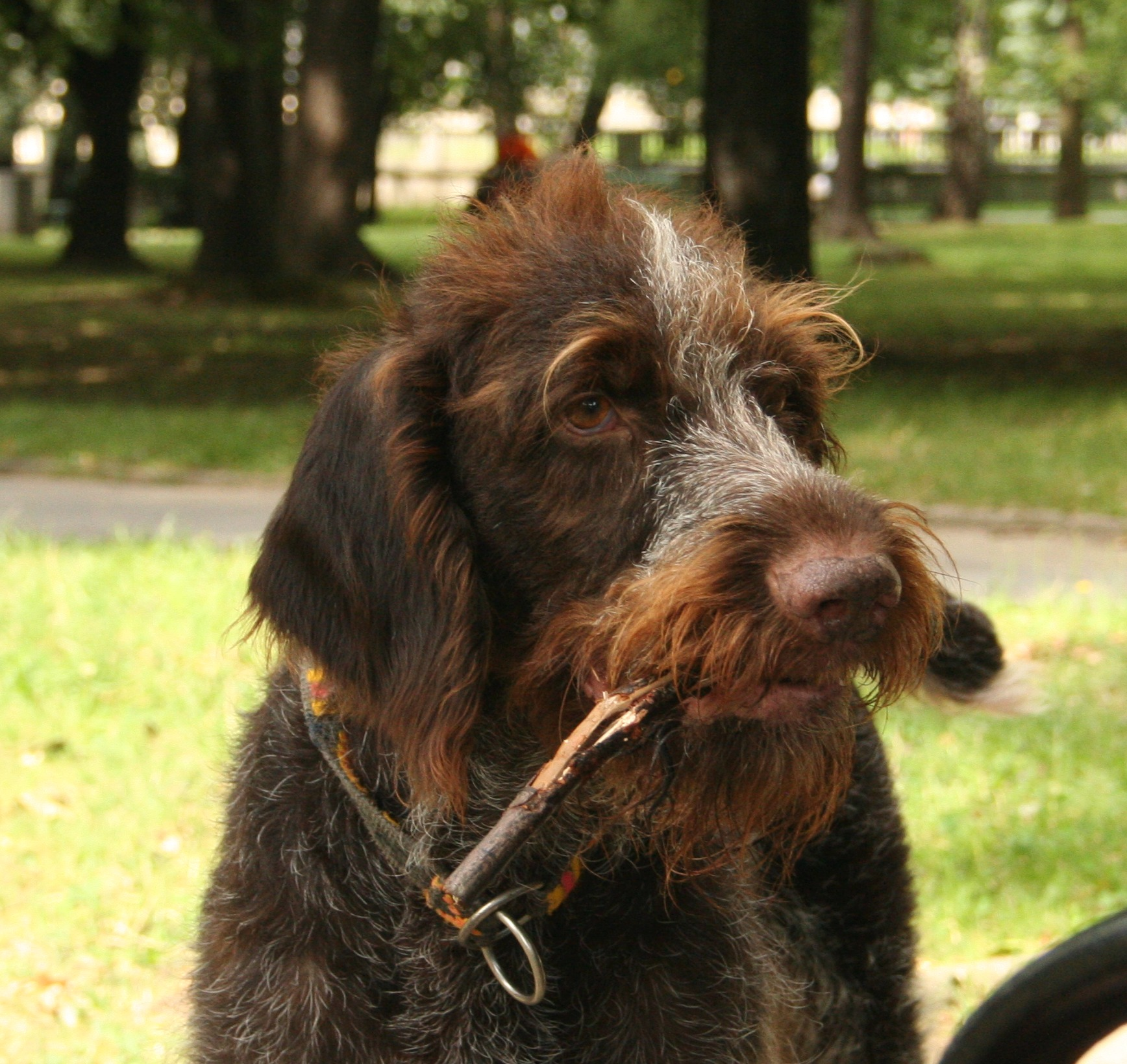 German Wirehaired Pointer, female